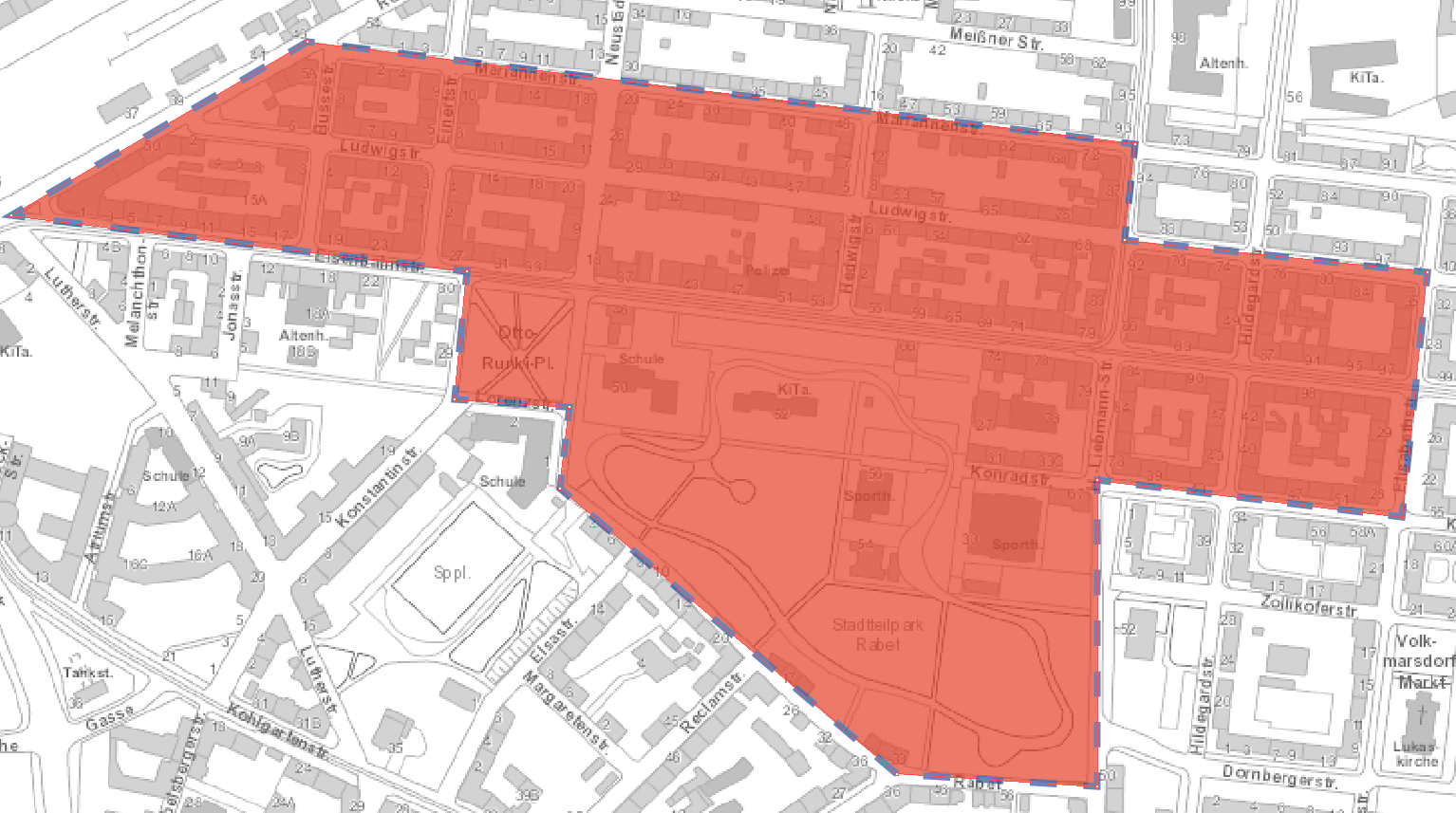 Waffenverbotszone Leipzig, Stand Januar 2019This map of Leipzig was created from OpenStreetMap project data, collected by the community. This map may be incomplete, and may contain errors. Don't rely solely on it for navigation.